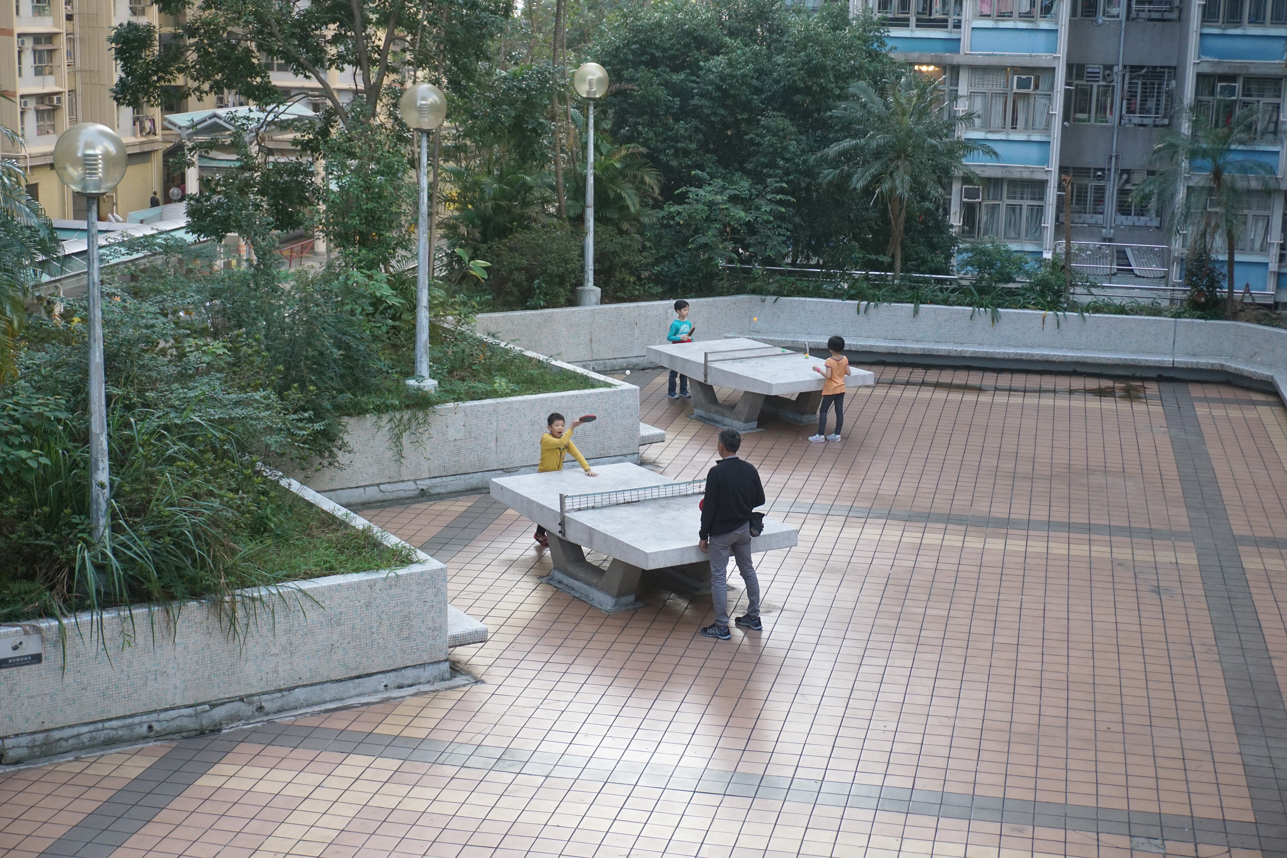 Tsz Man Estate in Tsz Wan Shan, Hong Kong.